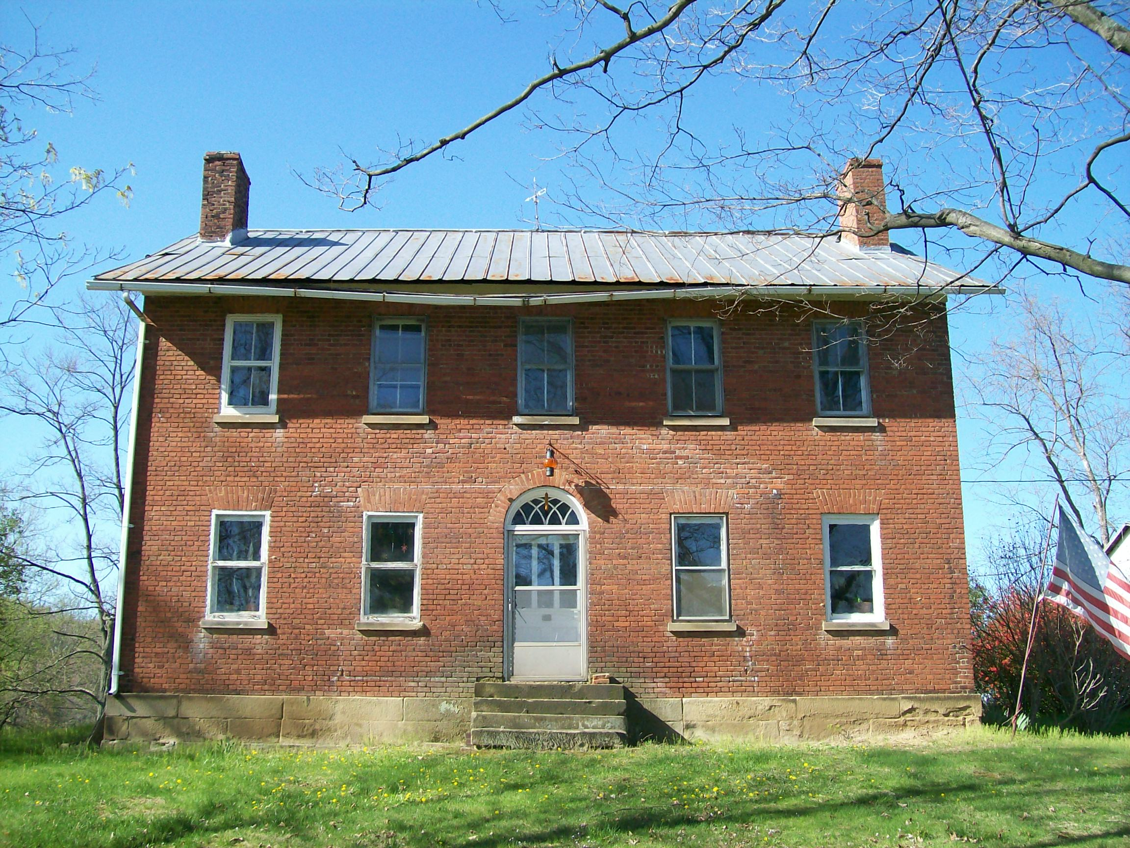 The Colonel Simeon Deming House northeast of Watertown, Ohio in Washington County. The house is photographed from its southern facade on Willis Road. On the NRHP for Washington County, Ohio. Taken 04-10-2010.